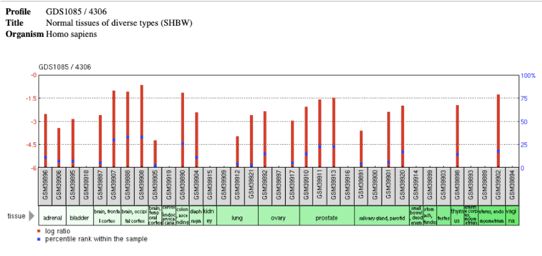 ncbi geo analysis